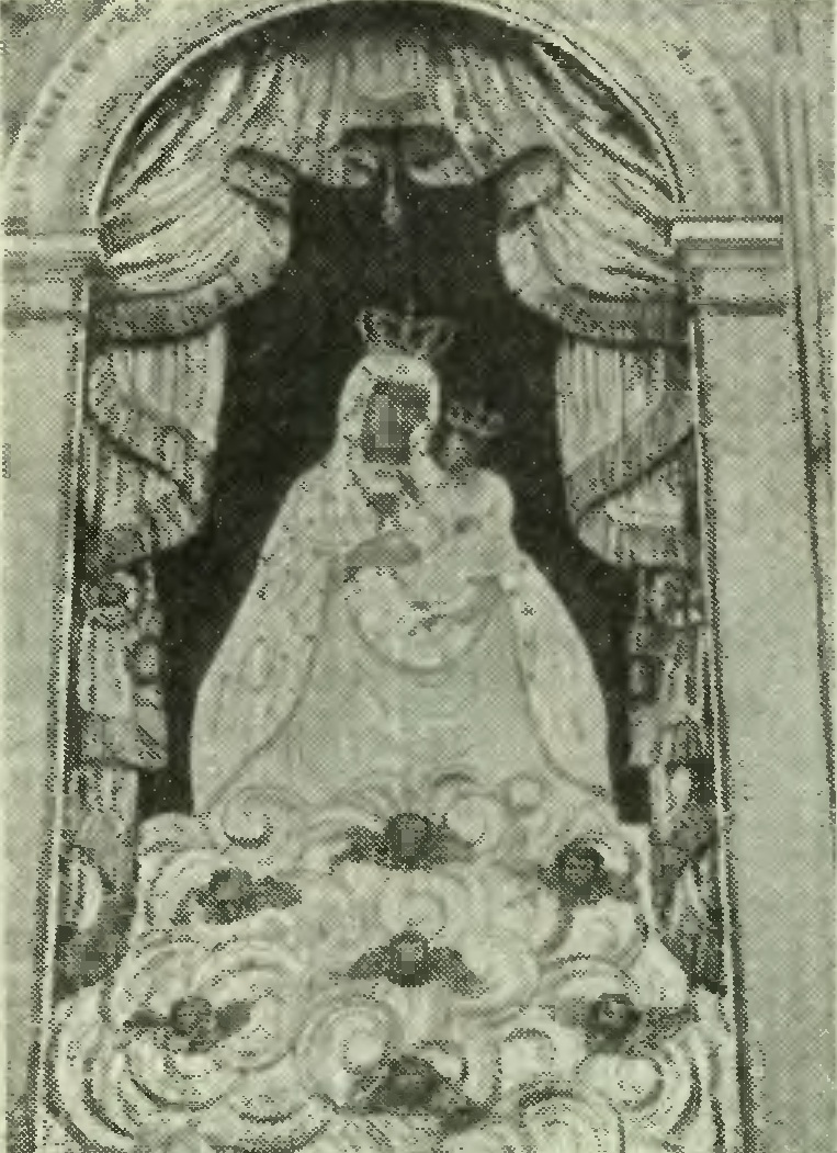 Our Lady of Consolation (Stara Błotnica)